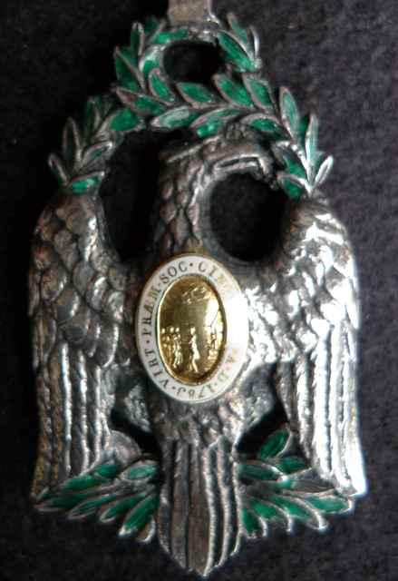 Close-up of the center of the madalion, the motto reading: VIRT - PRÆM - SOC - CINC - INST - AD 1783 (abbreviation of: Virtutis Præmium Societas Cincinnatorum Institua A.D. 1783: Reward [of] valor The Society of the Cincinnati Founded A.D. 1783) in gold letters set in a white enamel surround. In the center of the gold medalion two Roman senators present a sword to Cincinnatus who stands at the center, his hut to the right with a woman and child in her arms.